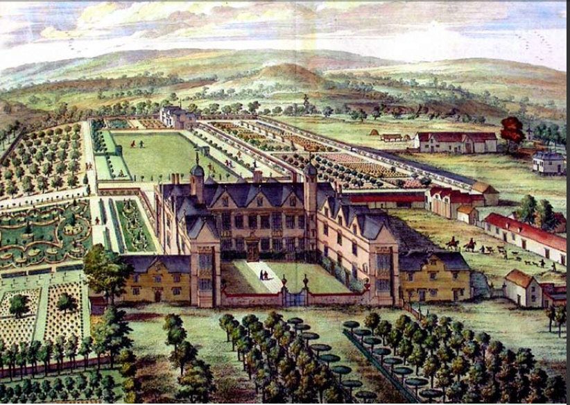 Siston Court, Gloucestershire, England., view from the east. Engraving by Johannes Kip (1653-1722) Dutch draughtsman. Commissioned by Mr Trotman, owner of Siston Court, for inclusion in book by Sir Robert Atkyns, published 1712,The Ancient and Present State of Gloucestershire,which included 65 folio engravings of Gloucestershire mansions. Published in monochrome. Tinted by later hand.